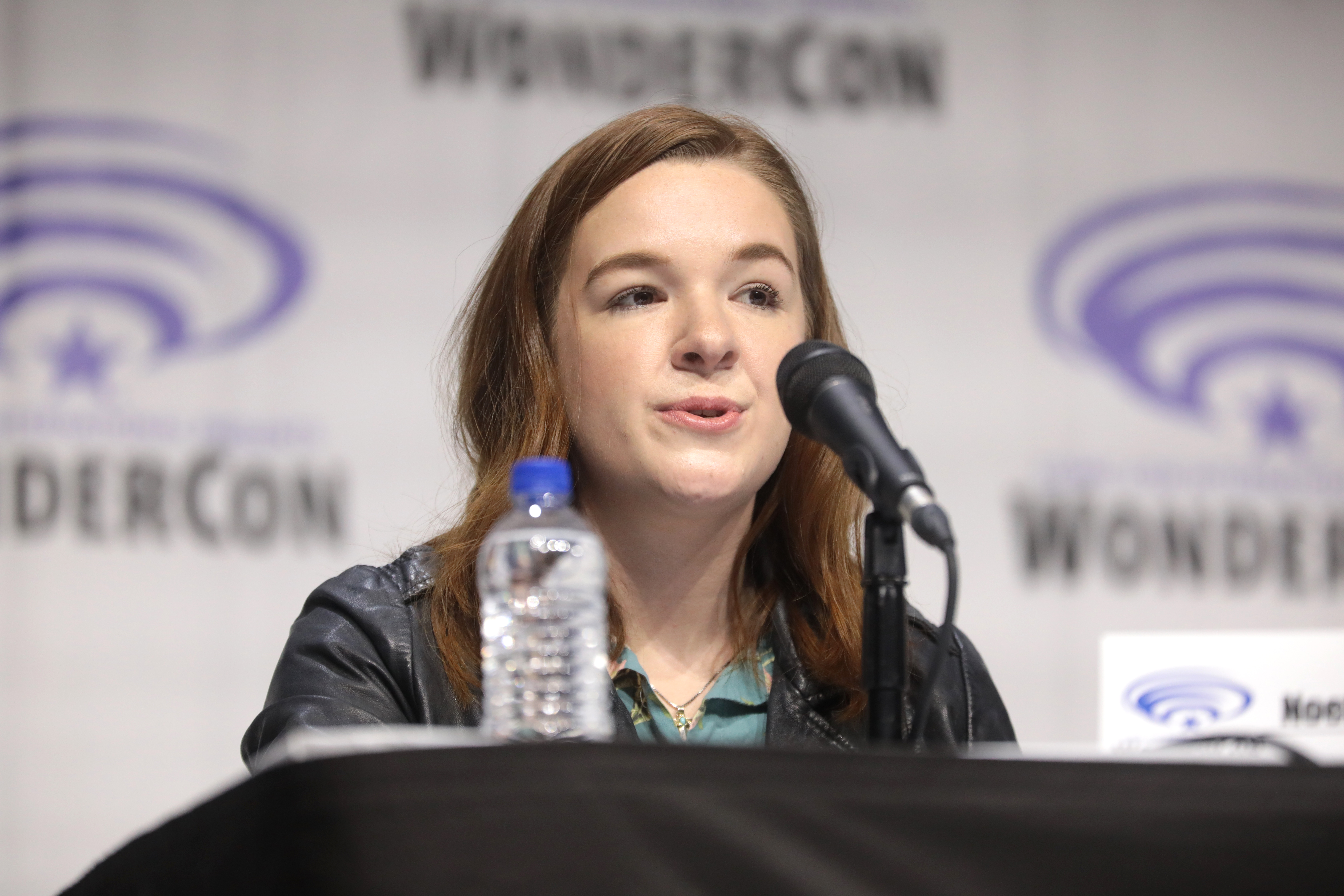 Noelle Stevenson speaking at the 2019 WonderCon, for "She-Ra and the Princess of Power", at the Anaheim Convention Center in Anaheim, California.